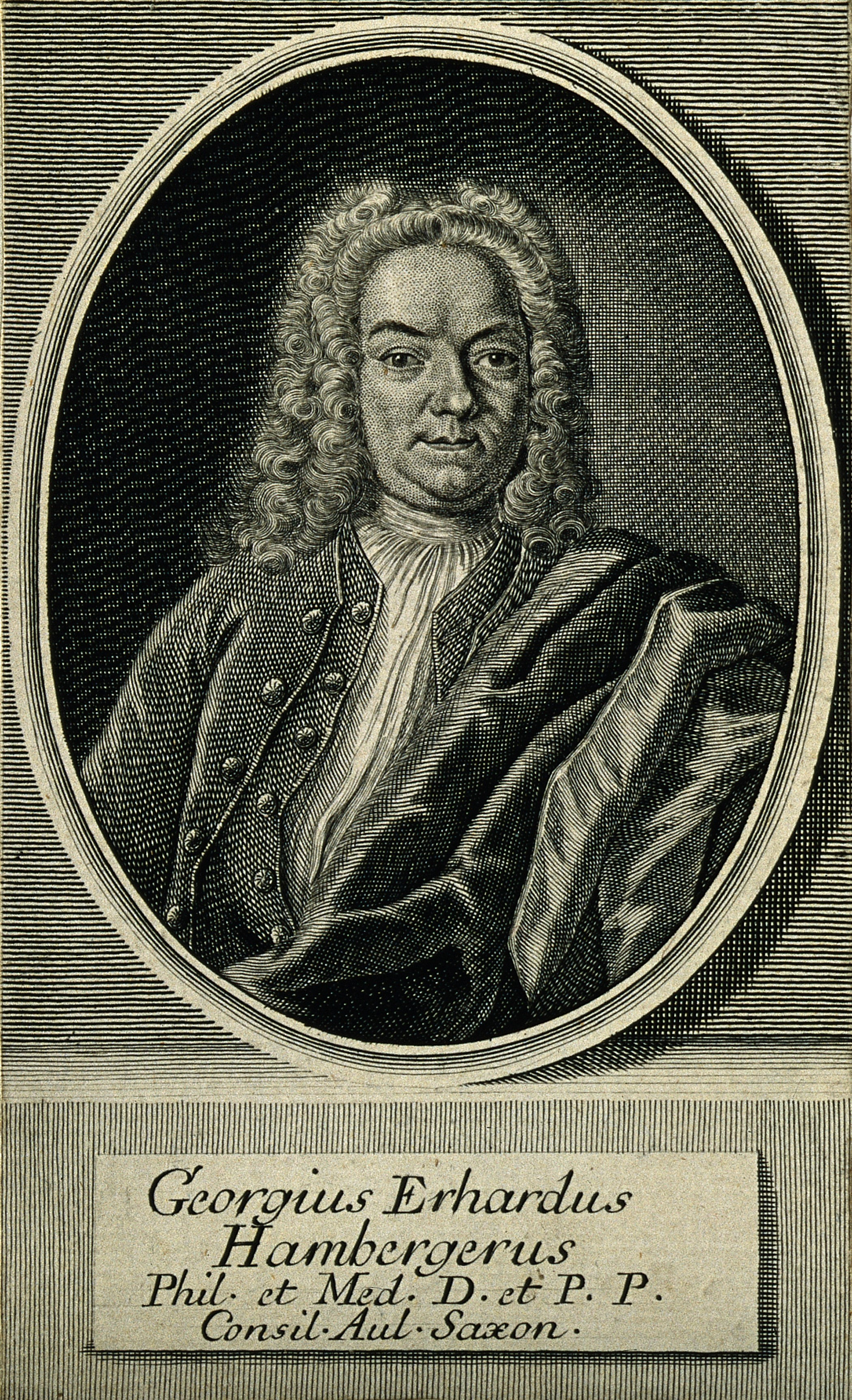 Georg Erhard Hamberger. Line engraving by M. Bernigeroth. Iconographic Collections Keywords: portrait prints; engravings; Georg Erhard Hamberger